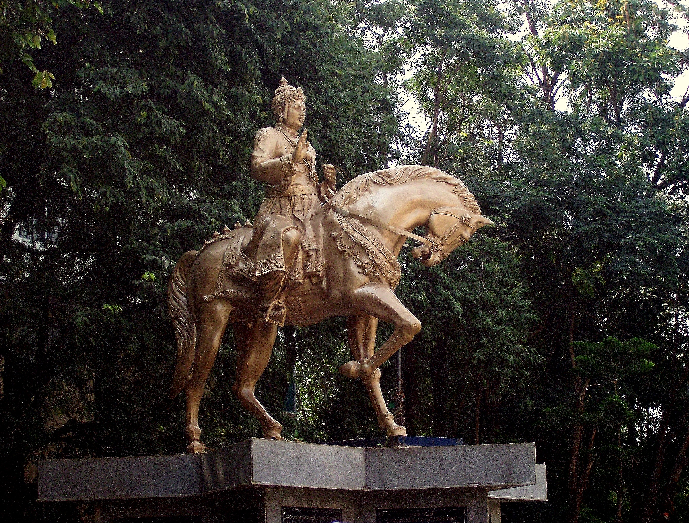 Basava Statue in Bangalore